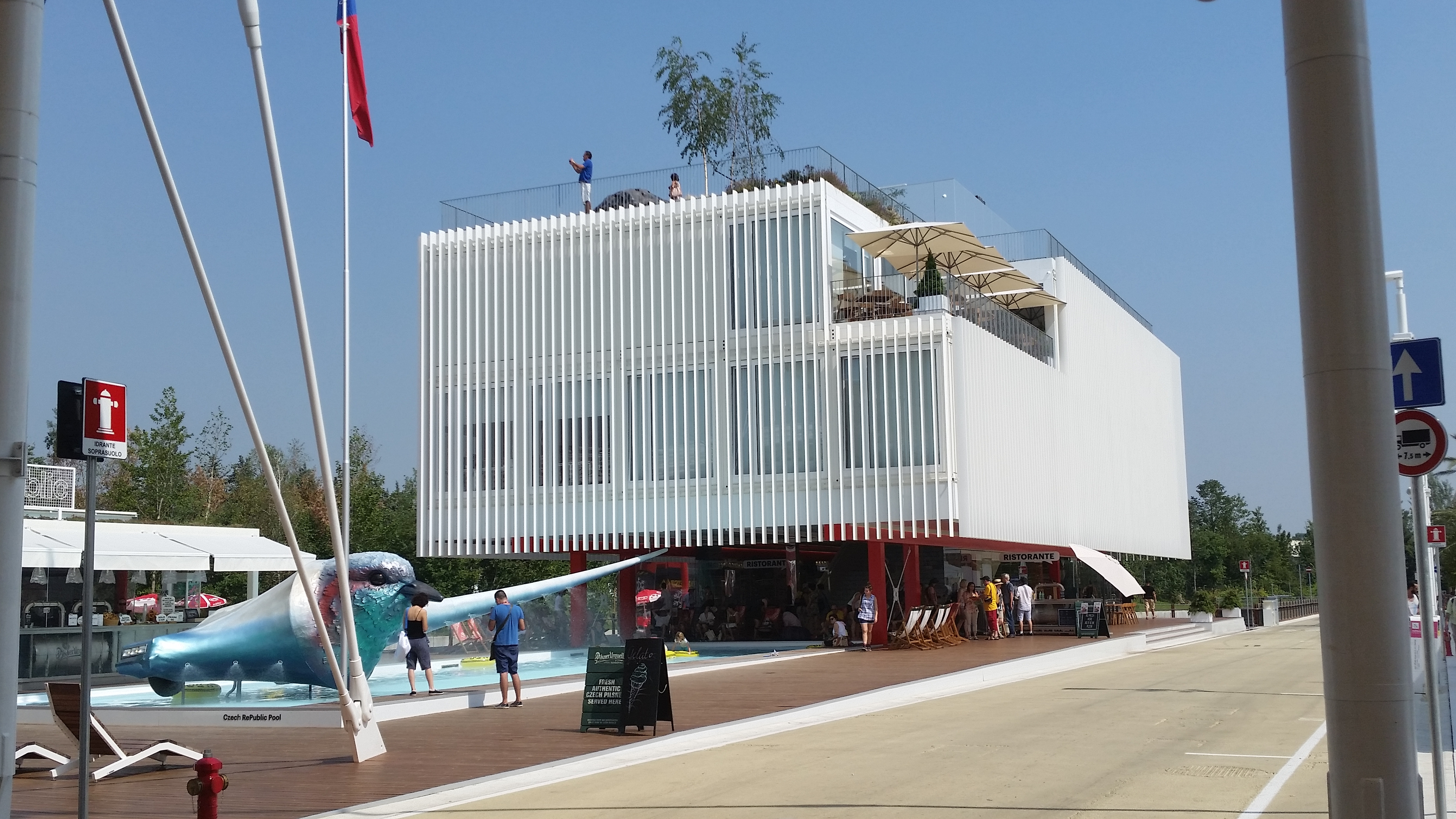 Pavilion of the Expo 2015 located in Milano (Italy)